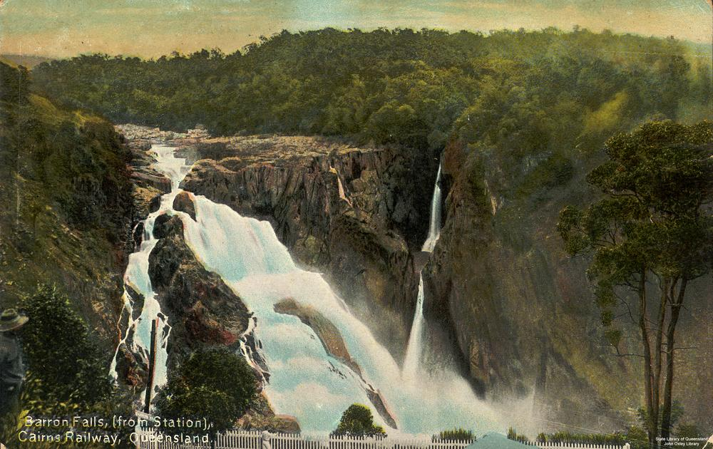 Barron Falls seen from the station, Cairns railway, Queensland. Postcard image of Barron Falls in full flow, viewed from the railway station on Cairns railway, Queensland.